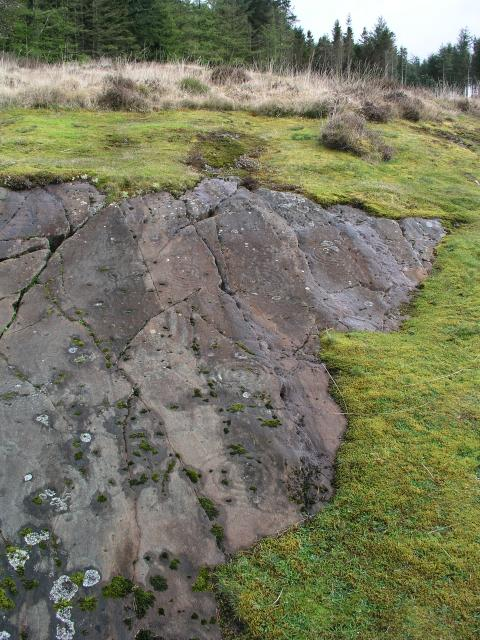 Cup and Ring stones above Achnabreck. at NR 855 908